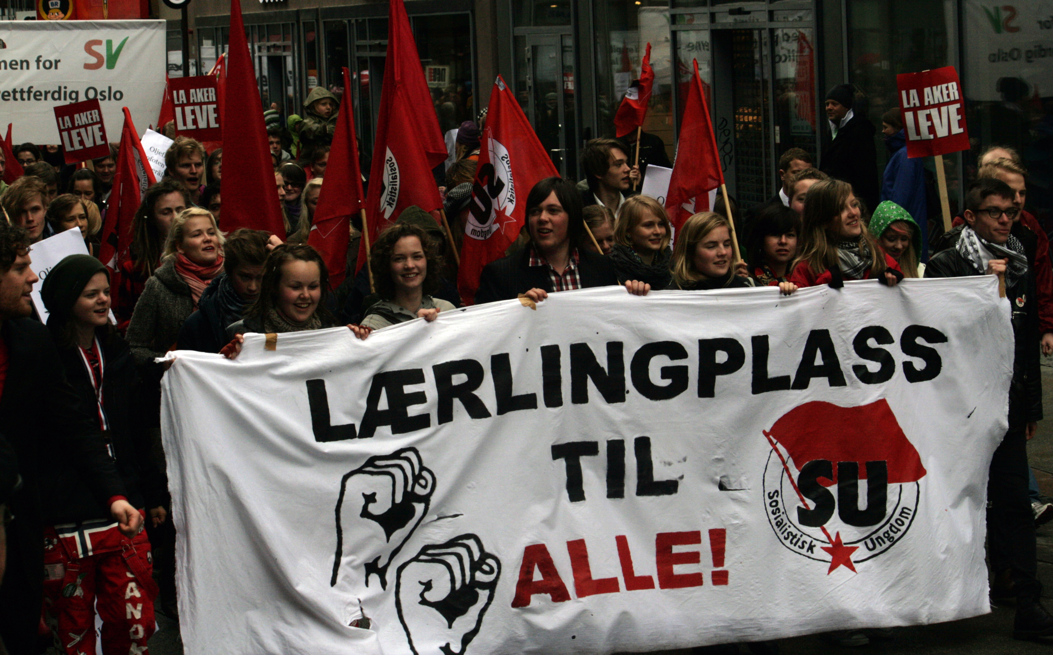 Labour Day, 2010 (Oslo): Socialist Youth with a banner demanding more apprentice positions